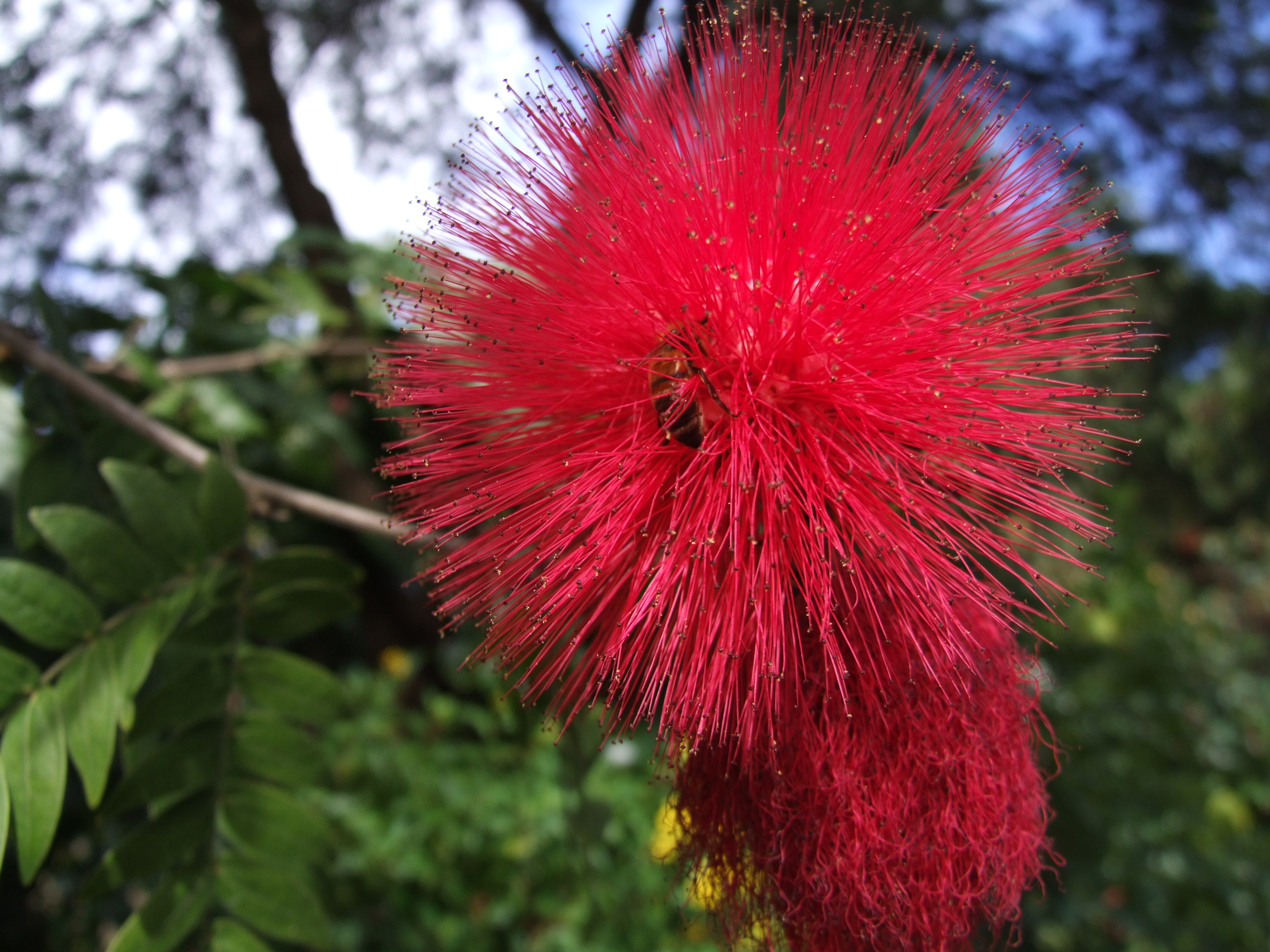 (Calliandra haematocephala), red powder puff in flower, Oʻahu, Hawaiʻi